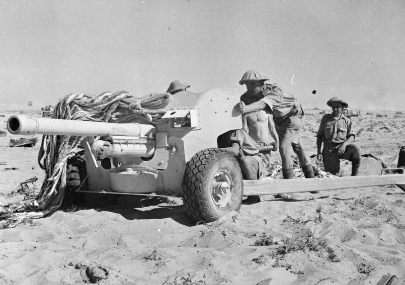 The British Army in North Africa 1942 A 6-pdr anti-tank gun in action in the Western Desert, 29 October 1942.